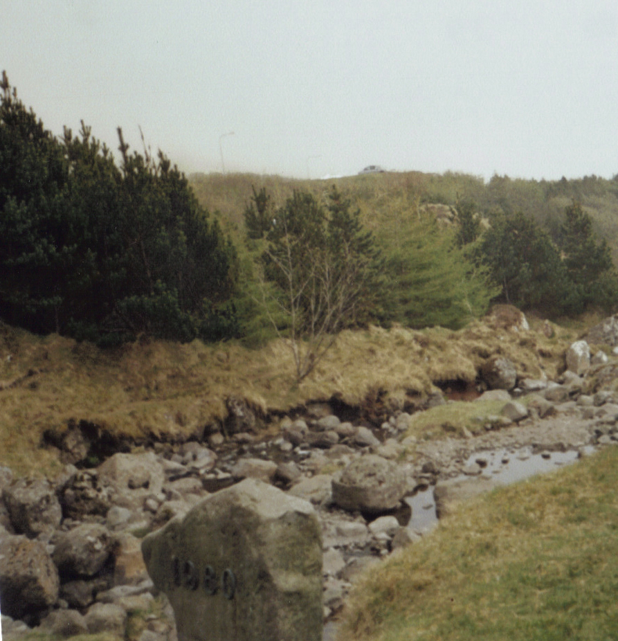 Forest near Klaksvík, Faerouse